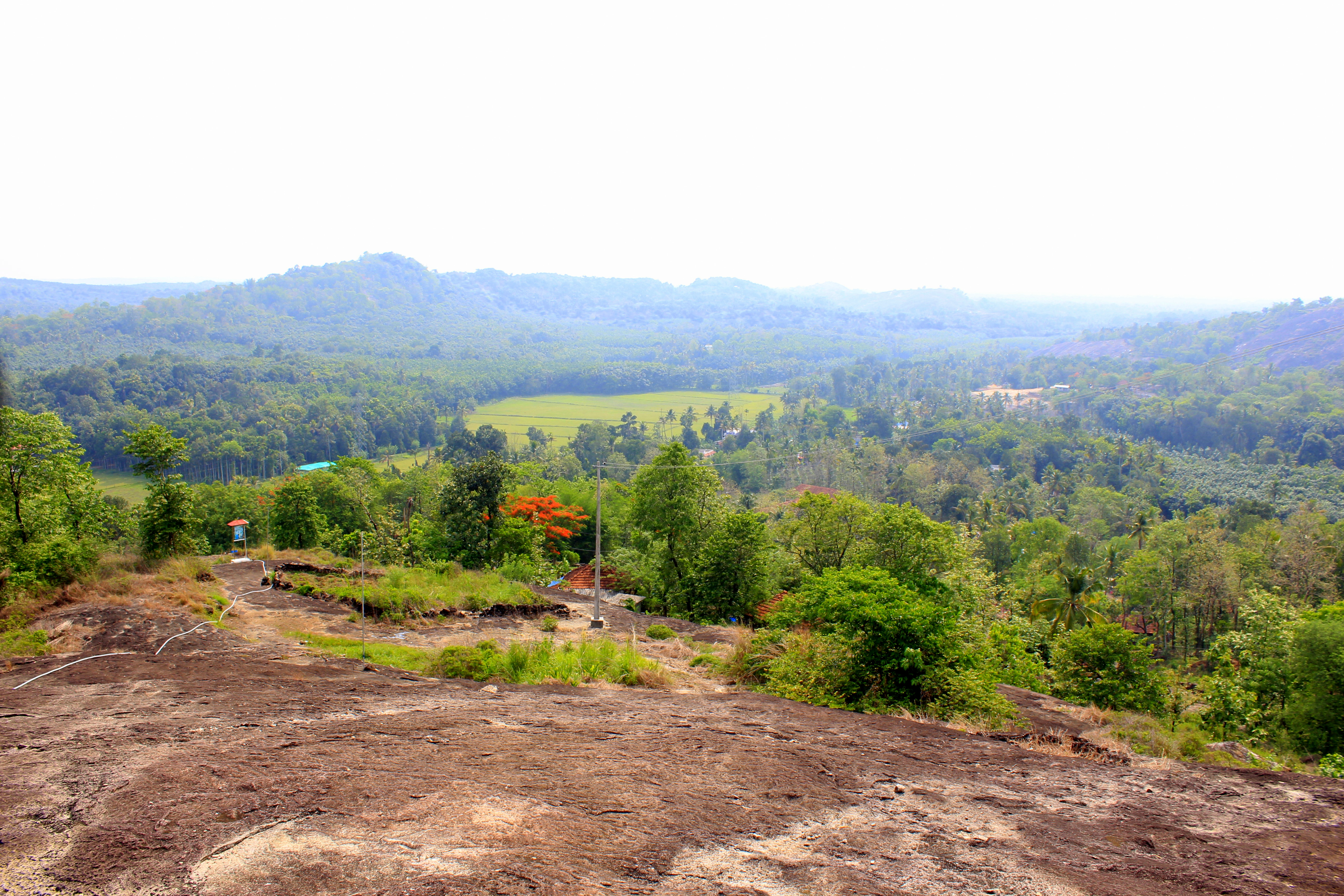 View from the top of Nadukaani Hill